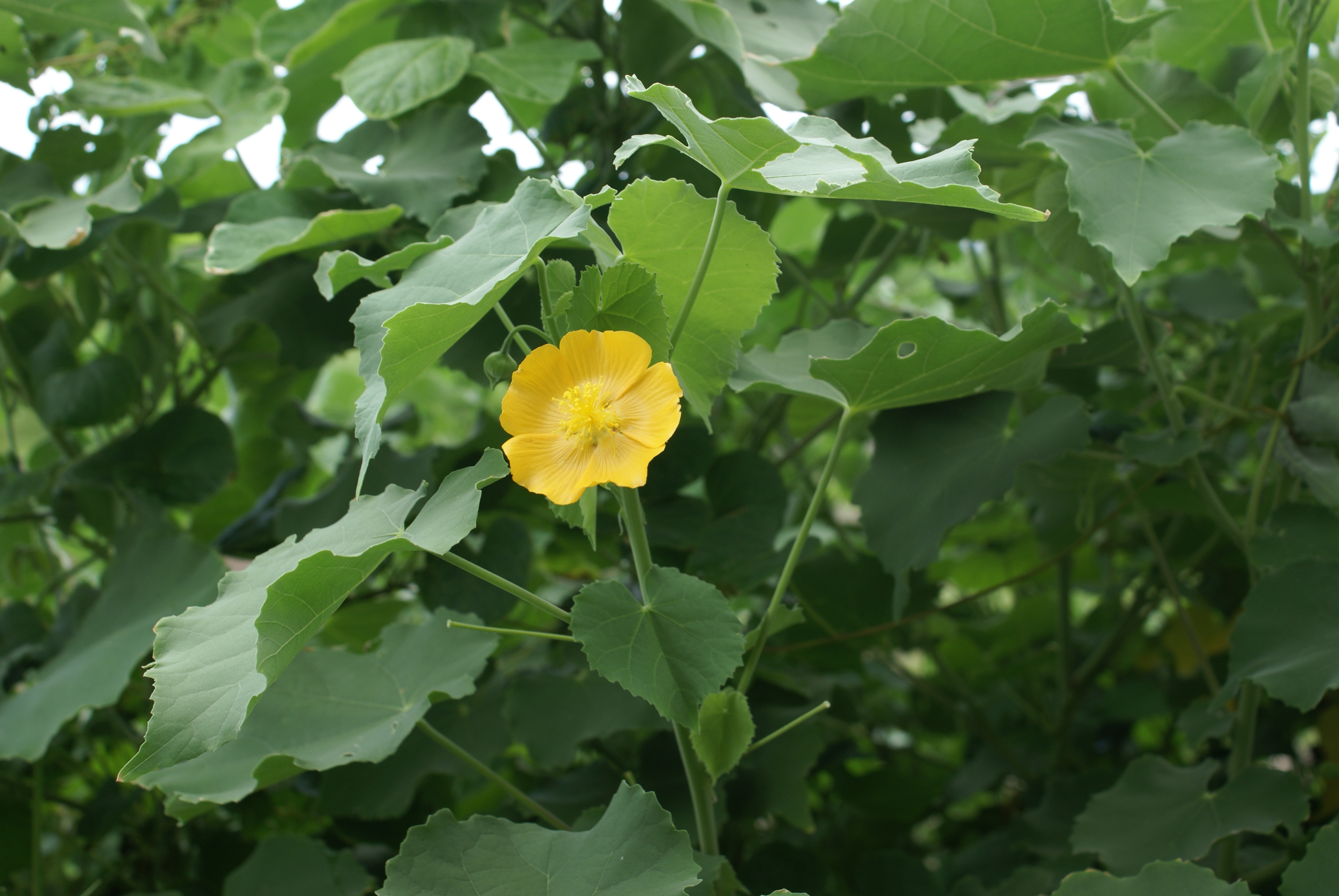 Flower of Abutilon indicum, an alien weed on Réunion island